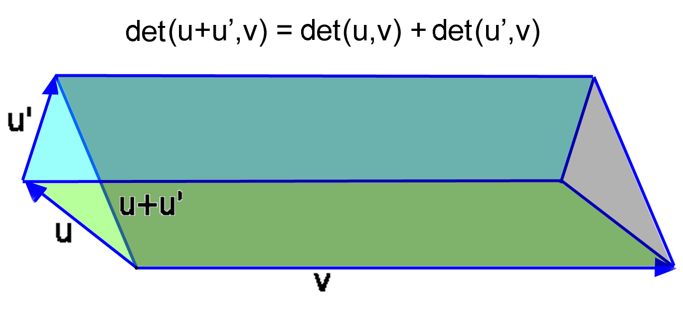 two parallelograms to describe the additivity of 2*2 determinants.det(u+u',v) = det(u,v) + det(u',v)